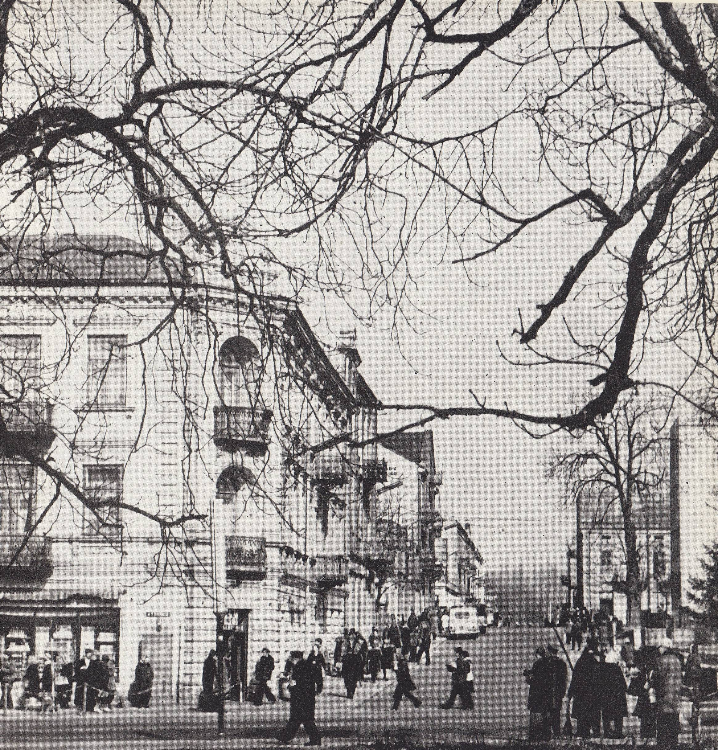 Ferdinand Foch street in Radom. Na pierwszym planie po lewej kamienica przy ul. Żeromskiego 33